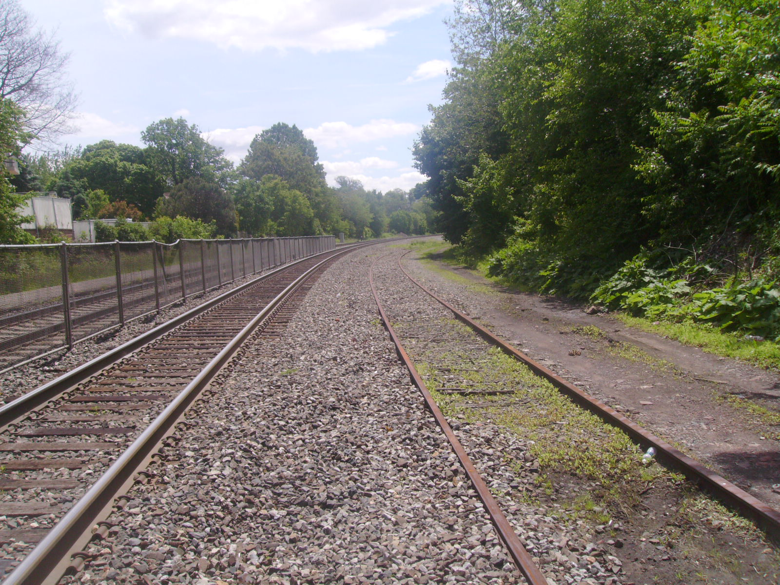 The track at the Kingsland station maintained by New Jersey Transit for the western leg of the Harrsion Cut-Off, or the Harrison-Kingsland Branch.